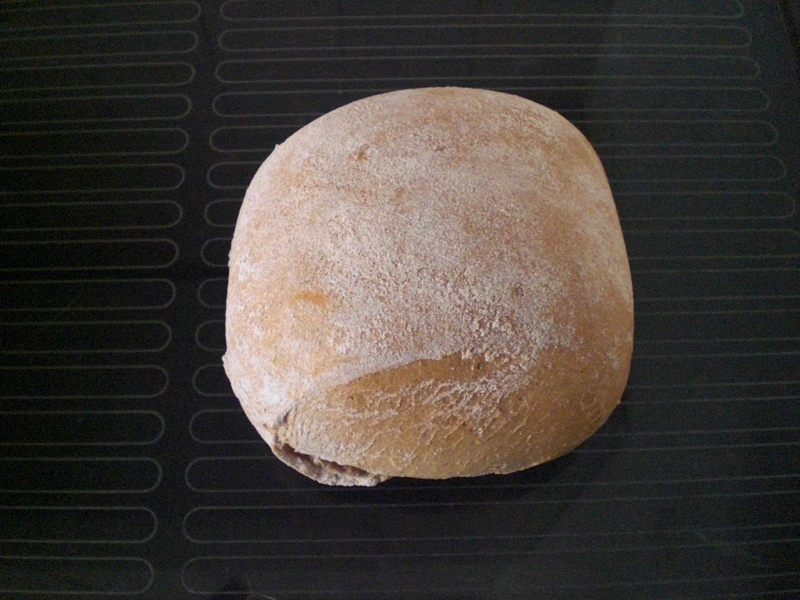 "Schusterjunge", a German roll typical for Berlin